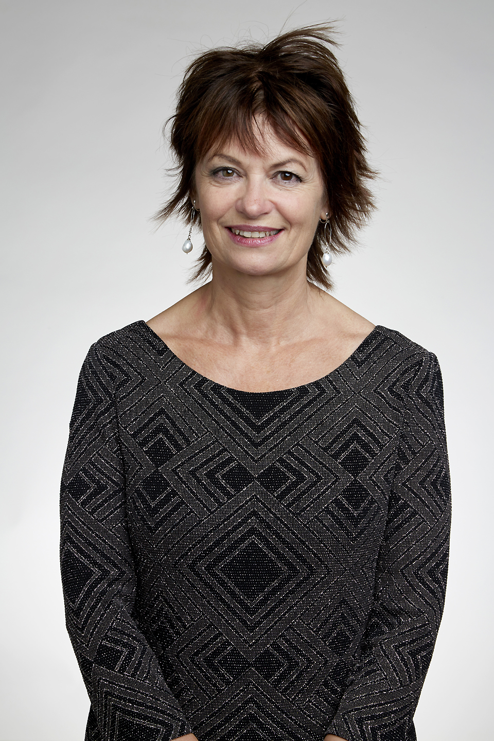 Dame Lesley Anne Glover, DBE, FRS, FRSE, FASM[4] (born 19 April 1956) is a Scottish biologist and academic. She was Professor of Molecular biology and Cell biology at the University of Aberdeen before being named Vice Principal for External Affairs and Dean for Europe. She also served as Chief Scientific Adviser to the President of the European Commission from 2012 to 2014. Attribution: The Royal Society